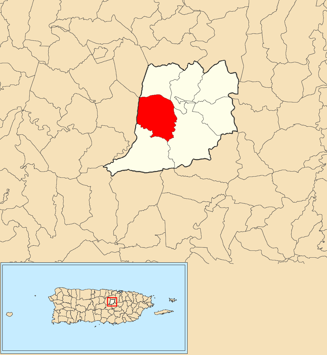 Cedro Abajo, Naranjito, Puerto Rico locator map